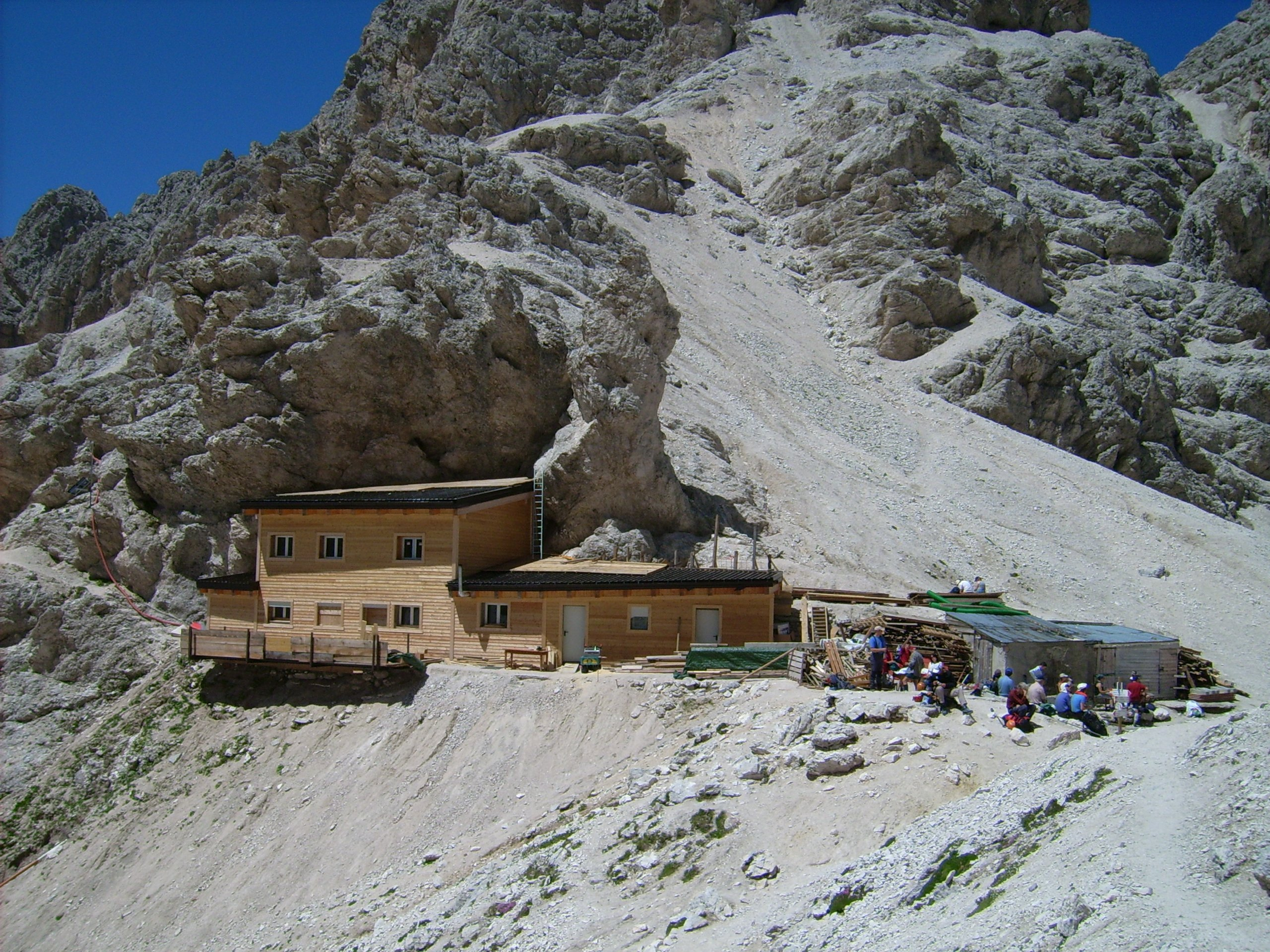 Rifugio Passo Principe (under re-construction) on the Catinaccio Group